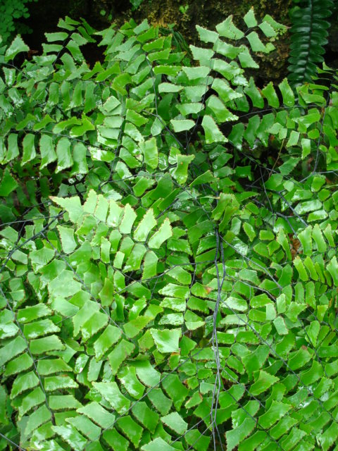 Picture of Adiantum trapeziforme